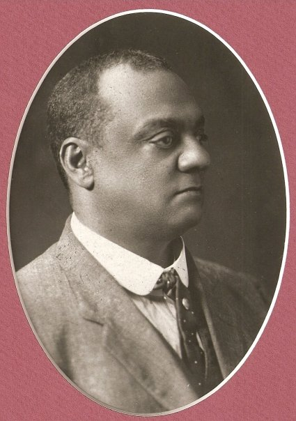 This is a portrait of Professor Hart.